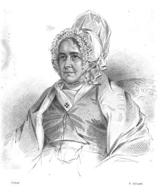 Portrait of Mary Anne Schimmelpenninck (née Galton, 1778–1856), English writer.